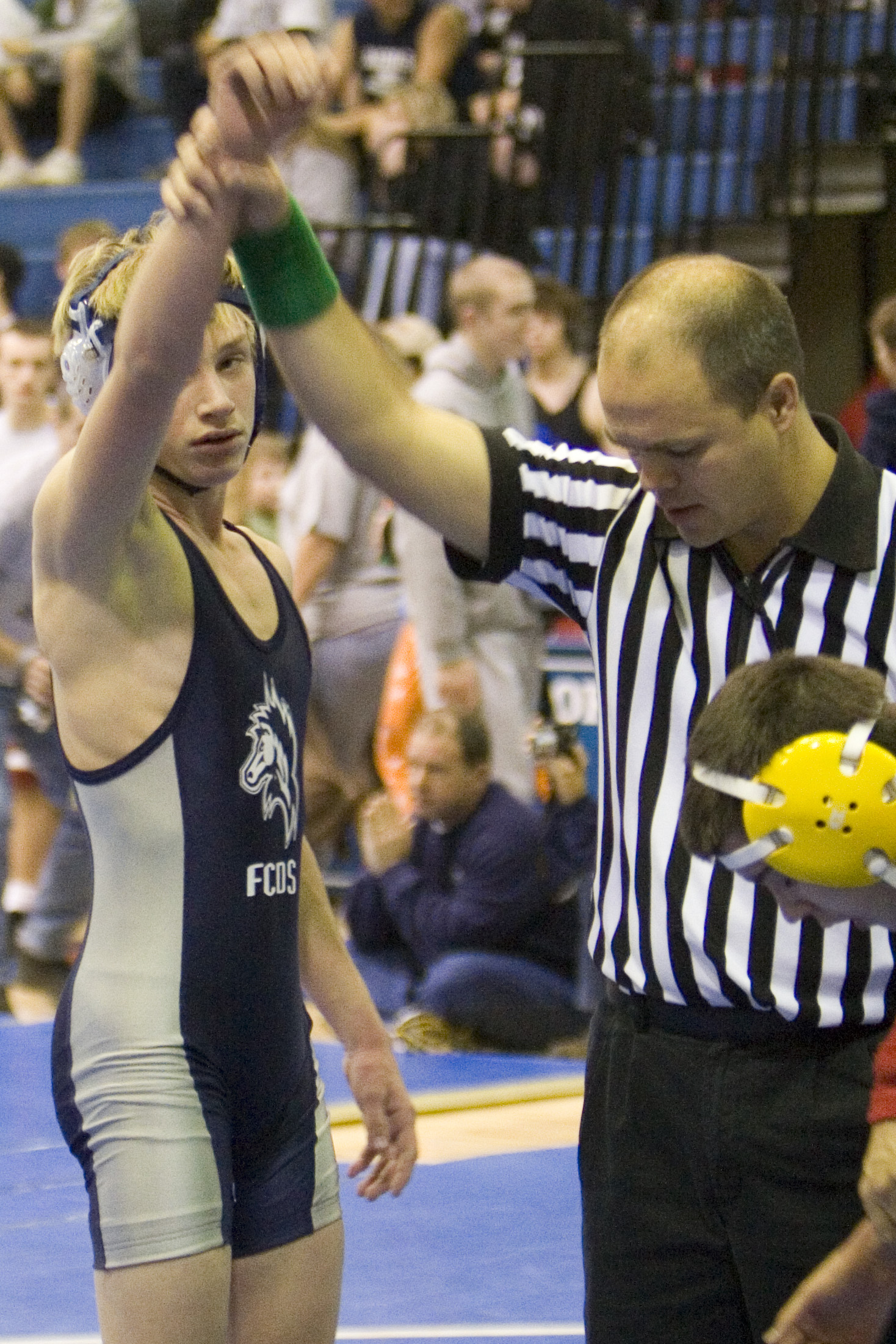 Two high school students wrestling (collegiate, scholastic, or folkstyle) in the United States. The winner, pictured here, is wearing a blue and gray wrestling singlet. Originally uploaded by Wikiman86 on the English Wikipedia project at